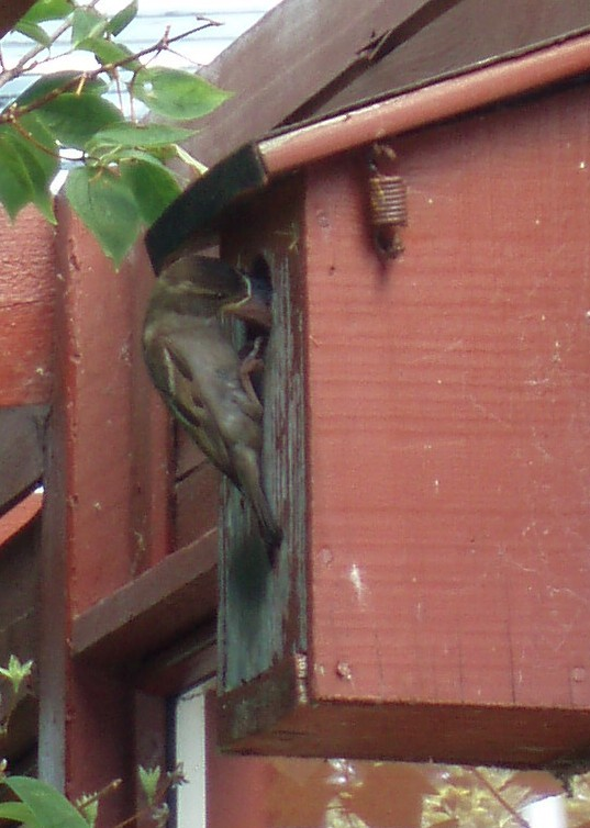 A female House Sparrow feeding young in a nest box, in Denmark